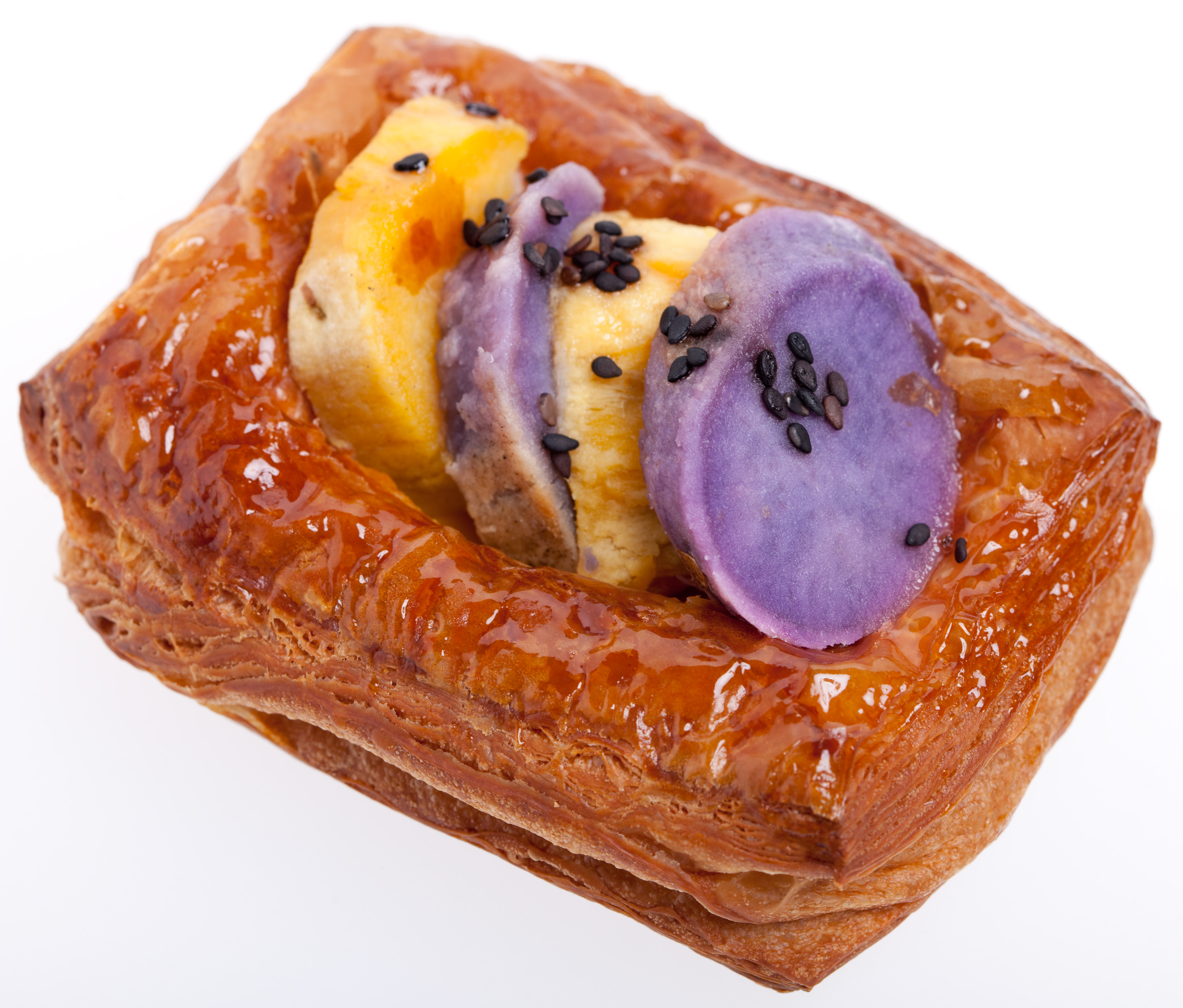 Sweet potato flaky pastry, typical in Japan